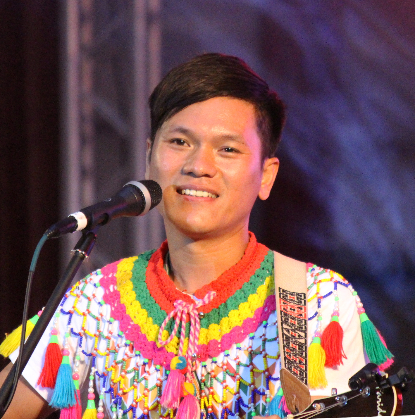 Taiwanese indigenous musician Suming Rupi (舒米恩) performing at the 2016 Amis Music Festival (阿米斯音樂節) in Dulan Village (都蘭), Taitung County, Taiwan